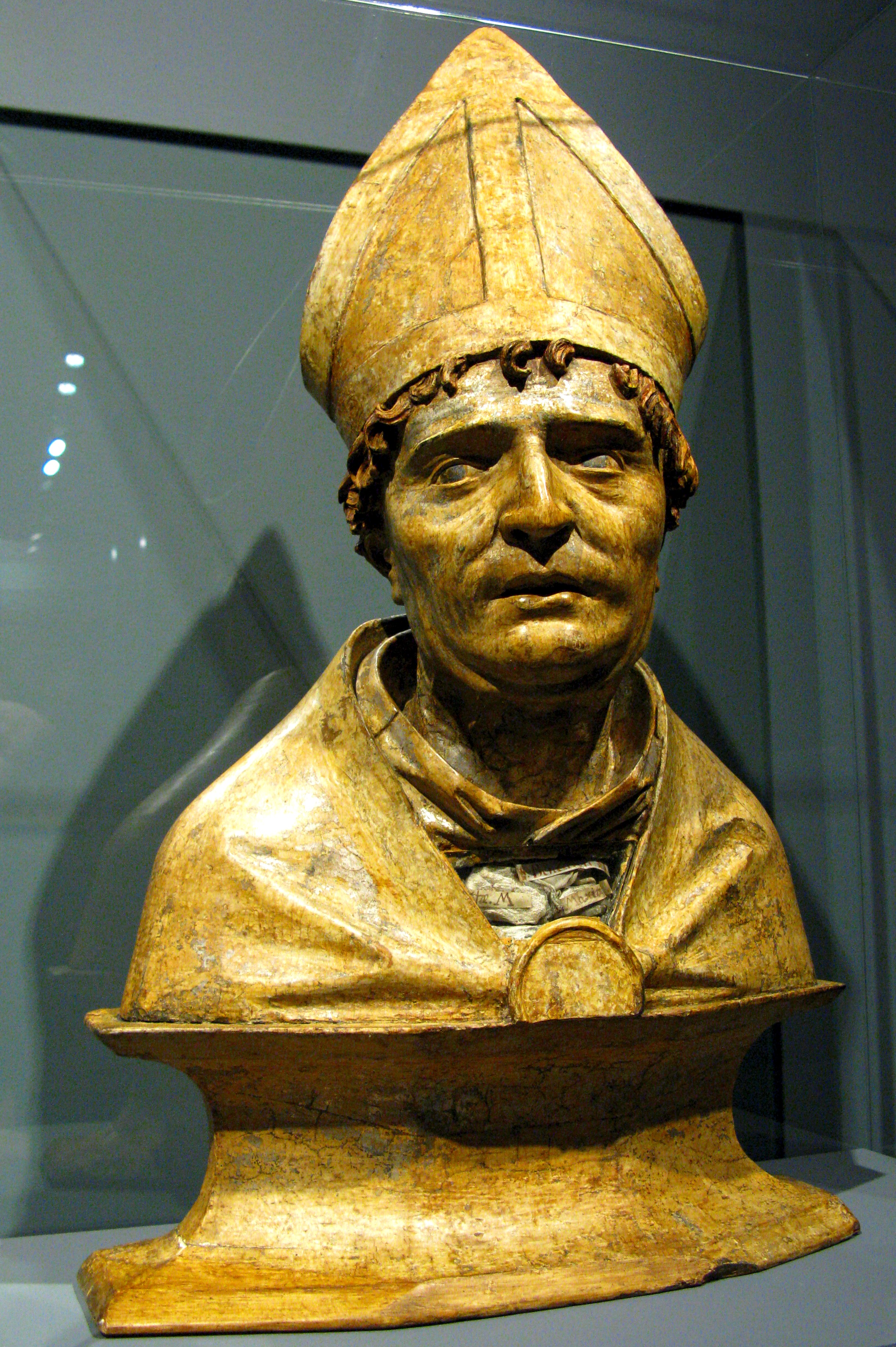 Reliquary bust of Saint Adalbertus